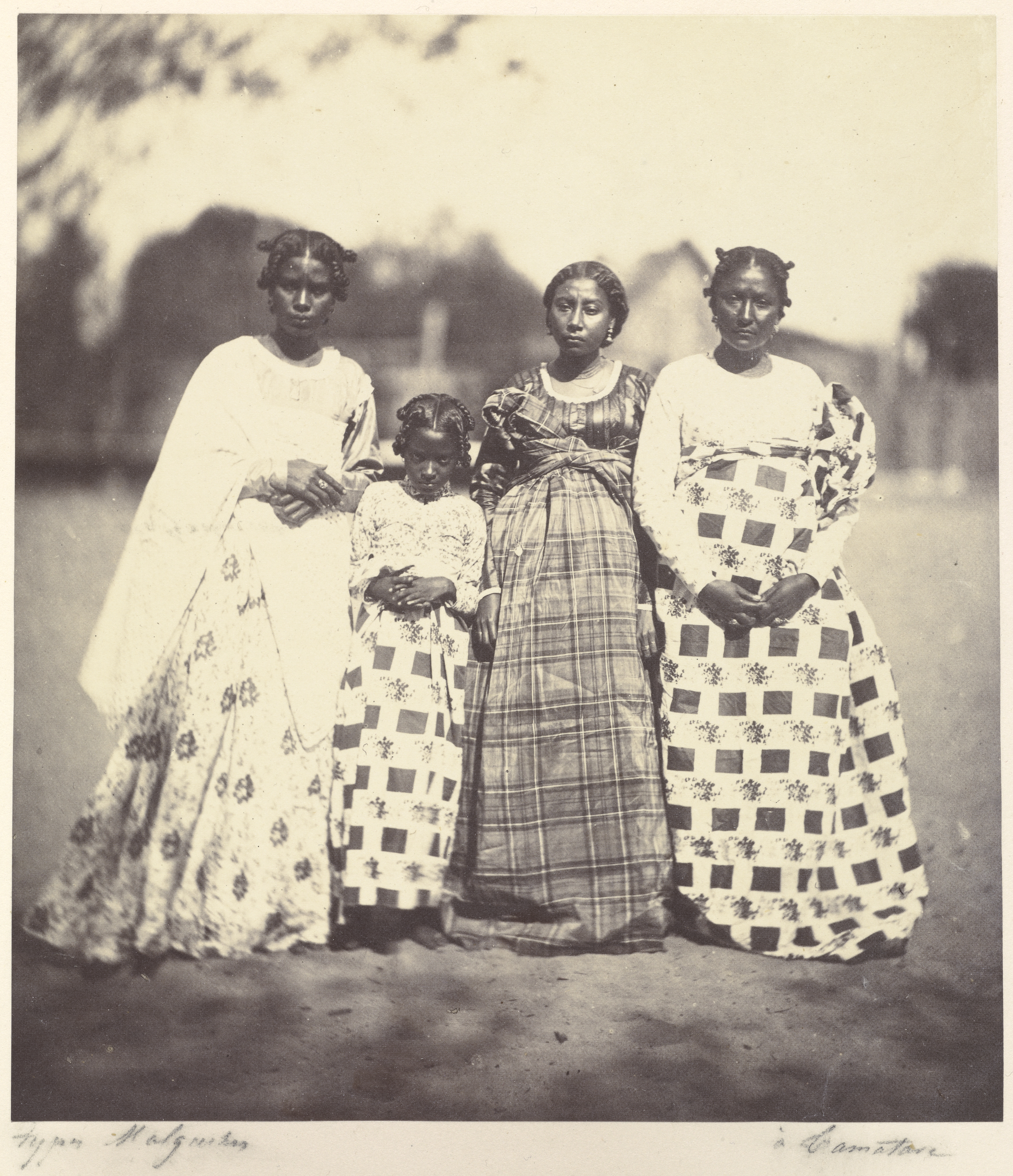 Group of Betsimisaraka women